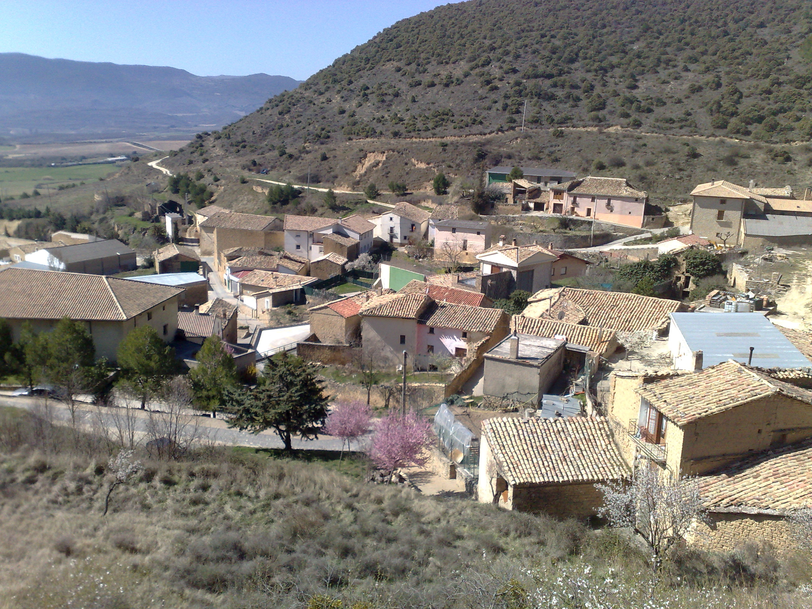 Ageza (Spanish Ayesa) village, Ezporogi/Ezprogui council, Navarre, Basque Country